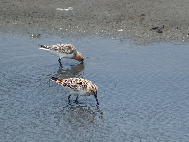 Limicola falcinellus( Front), Yunlin County, Taiwan, 2008.